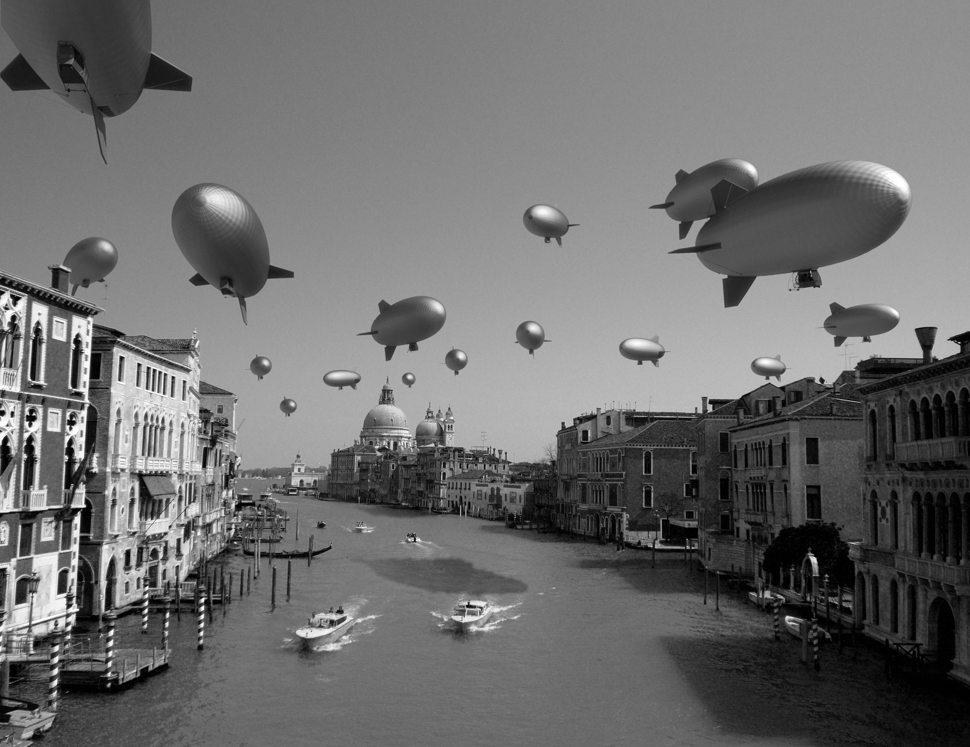 Tourist photograph of Venice airship event, ca. Spring 2009.